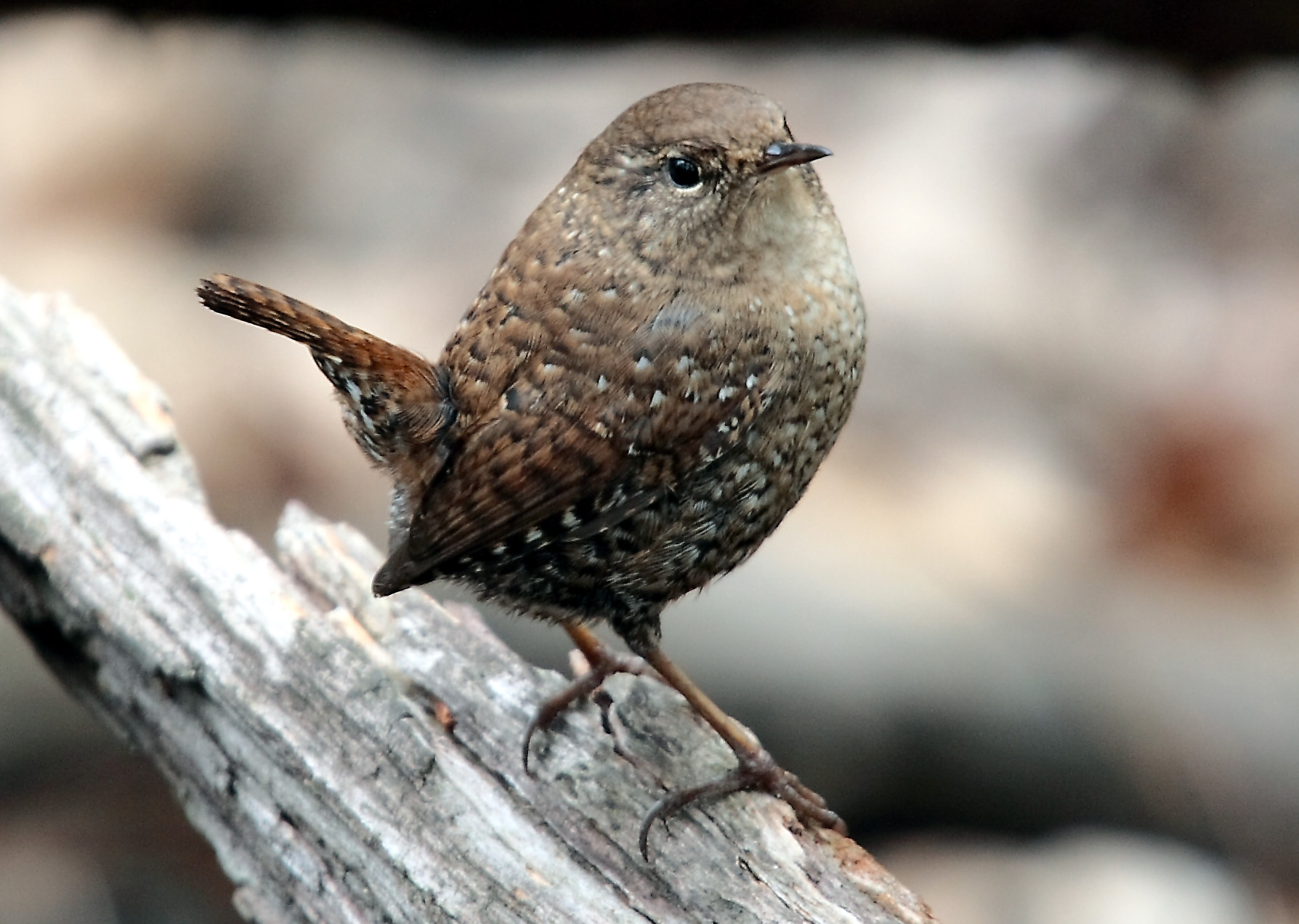 Eastern Winter Wren Troglodytes hiemalis, Central Park Northwest, NYC, New York, USA. 280mm @ 1/40 f5.6 ISO 200 RAW